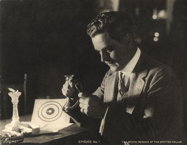 In a candlelit basement, John Storm (played by Harry Benham) loads bullets into a pistol magazine in a scene still for the 1914 Thanhouser silent film serial Zudora (aka The Twenty-Million-Dollar Mystery and The Demon's Shadow (1919 reissue title)). The print is captioned "Episode No. 1" and "The Mystic Message of the Spotted Collar."